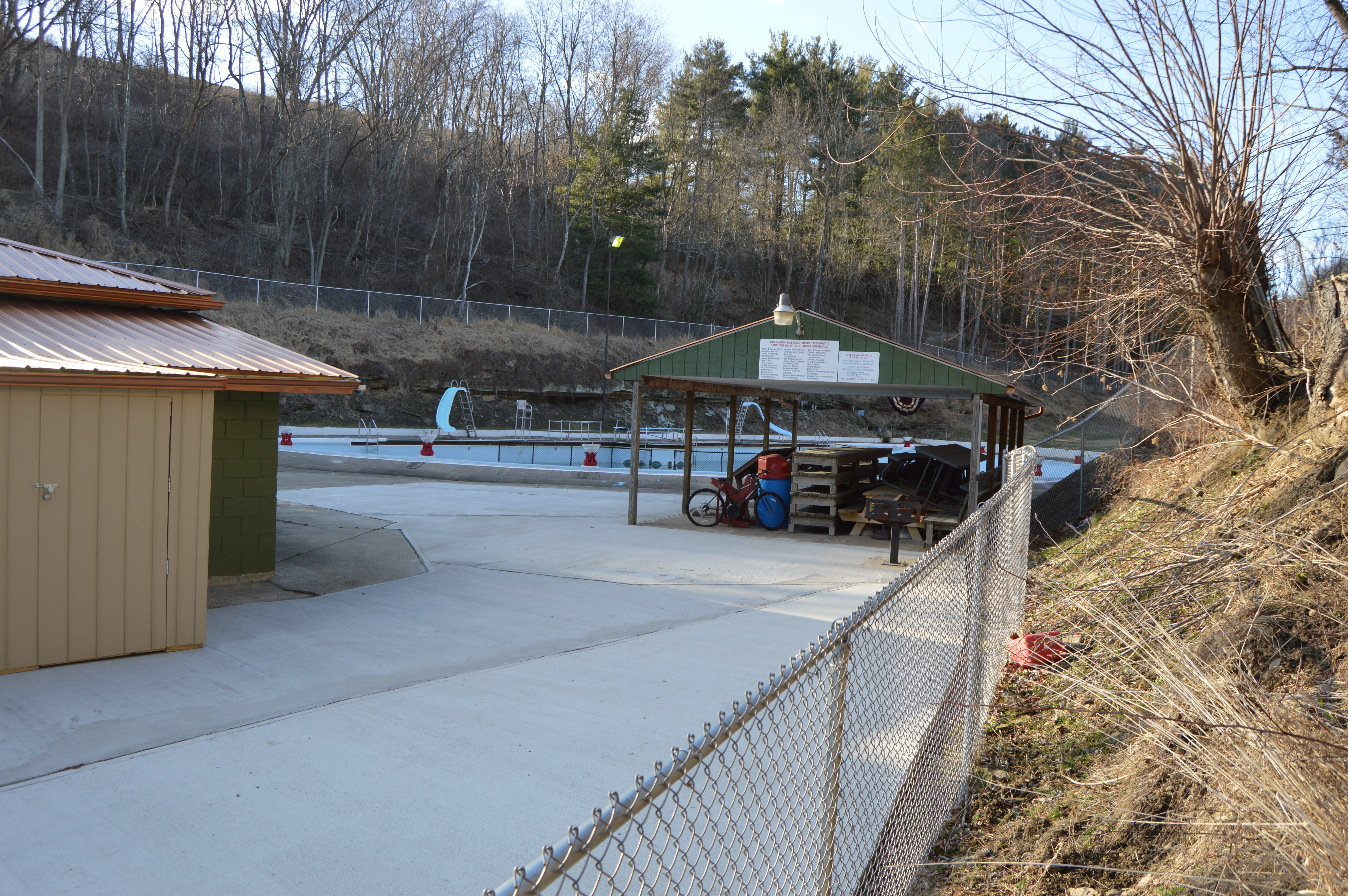 Overview of the Cameron City Pool, located off Park Street in Cameron, West Virginia, United States. Built in 1939 by the Public Works Administration, it is listed on the National Register of Historic Places.